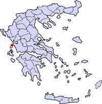 locator map, based on Image:Prefectures Greece grey.png